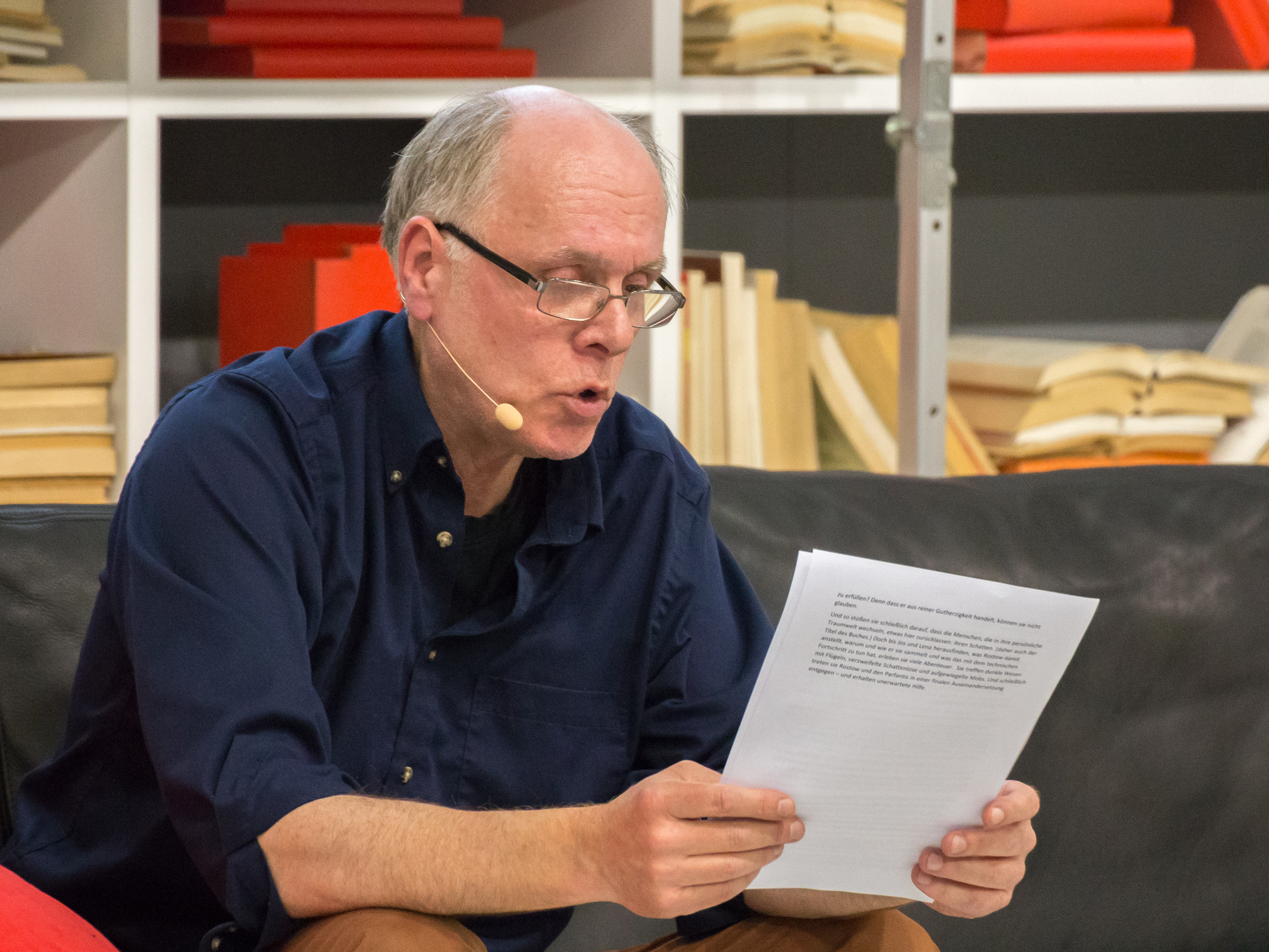 The writer Gerd Ruebenstrunk reading Der Schattensammler at the Frankfurt Book Fair 2014